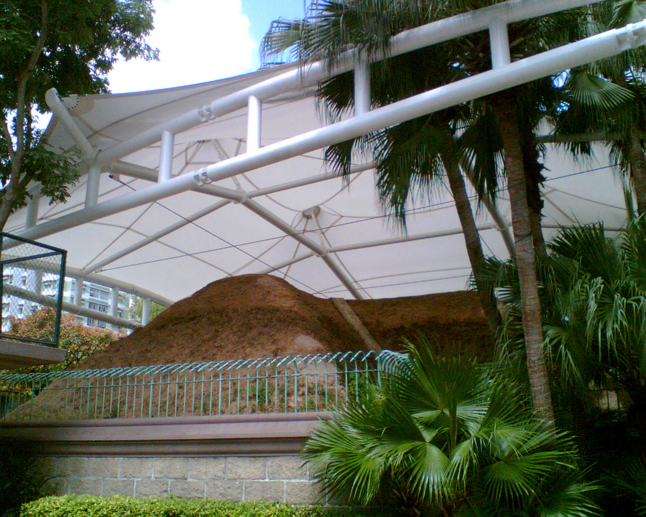 Lei Cheng Uk Han Tomb Museum